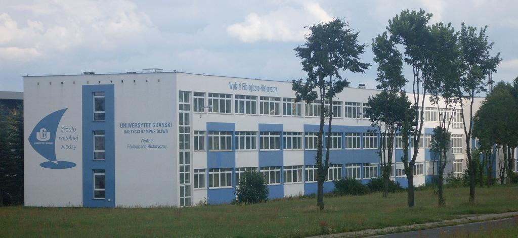 Faculty of Languages and History by Gdańsk University. 1 October 2008 will become party the Faculty of Philology and Faculty of History. To occupy will be the same the building. This is old inscription.